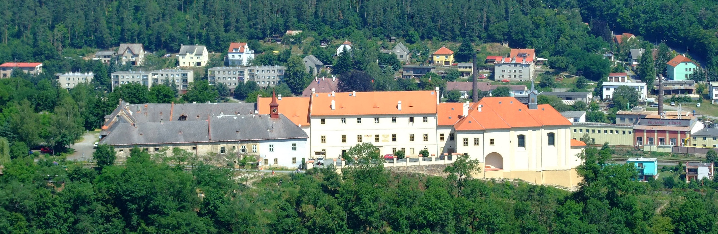 Nižbor castle, Central Bohemian region, CZ, as seen from Stradonice Oppidumhelp